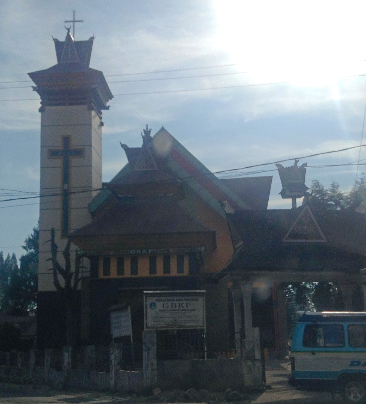 GBKP Simpang Enam Kabanjahe, Klasis Kabanjahe, Church in Kabanjahe, Karo